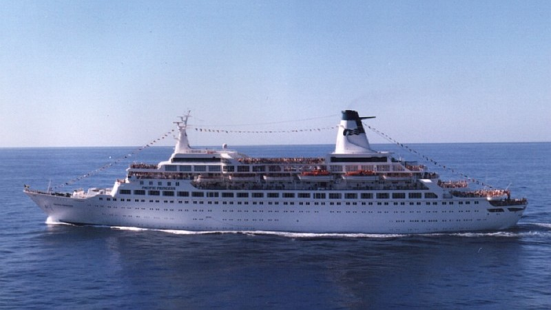 Pacific Princess, aka "The Love Boat", off the US West Coast in 1987 Author Paul Dashwood Built: 1971 20186 grt IMO 7018563 ex-SEA VENTURE Renamed PACIFIC in 2001